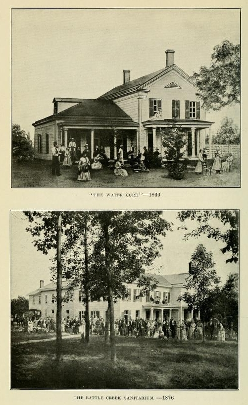 The origin of the Battle Creek Sanitarium, from Kellogg, John Harvey. The Battle Creek Sanitarium System: History, Organization, Methods. Battle Creek, Mich: Gage Printing Co., 1908, p. 12